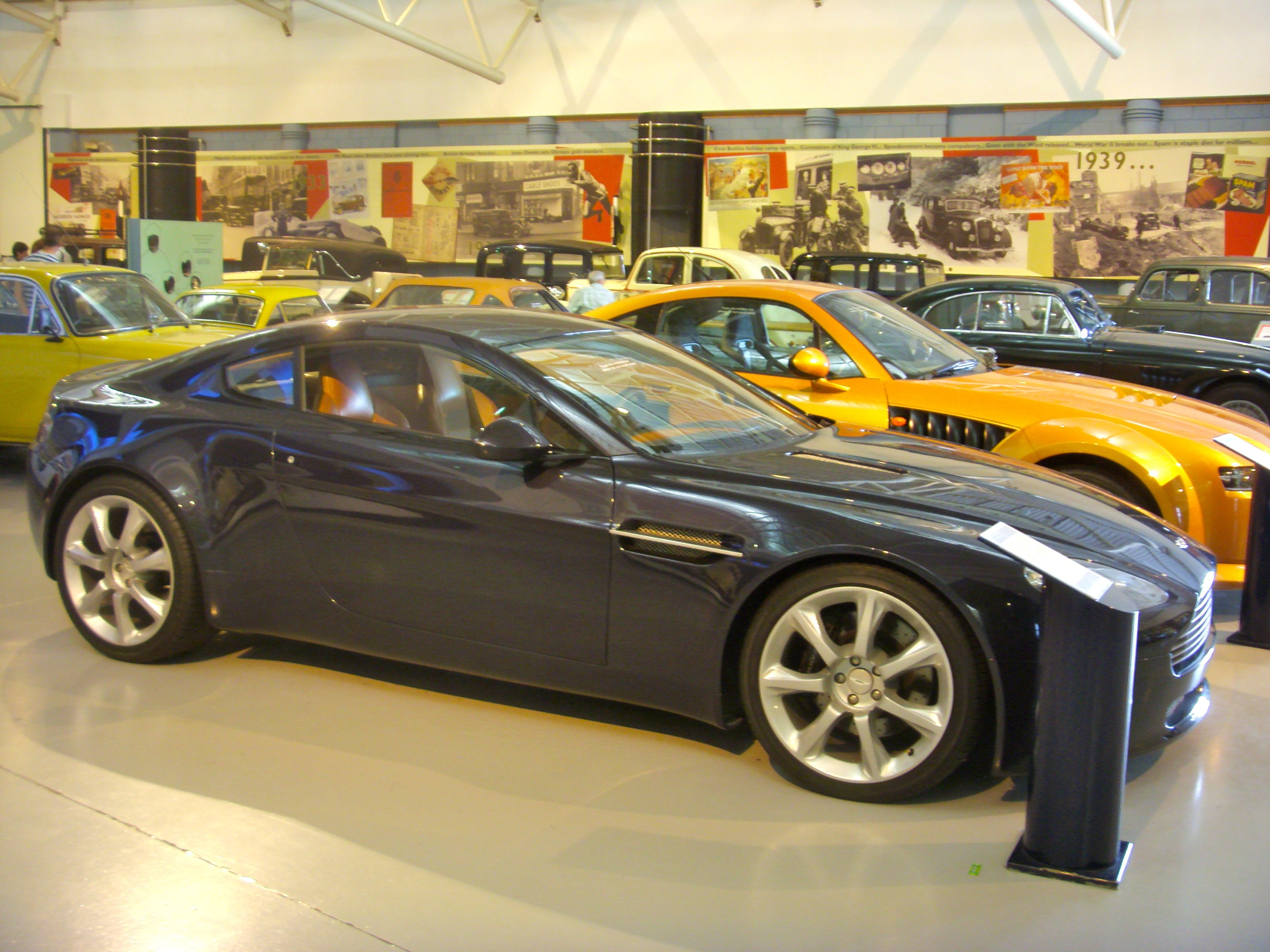 2003 Aston Martin AMV8 Concept